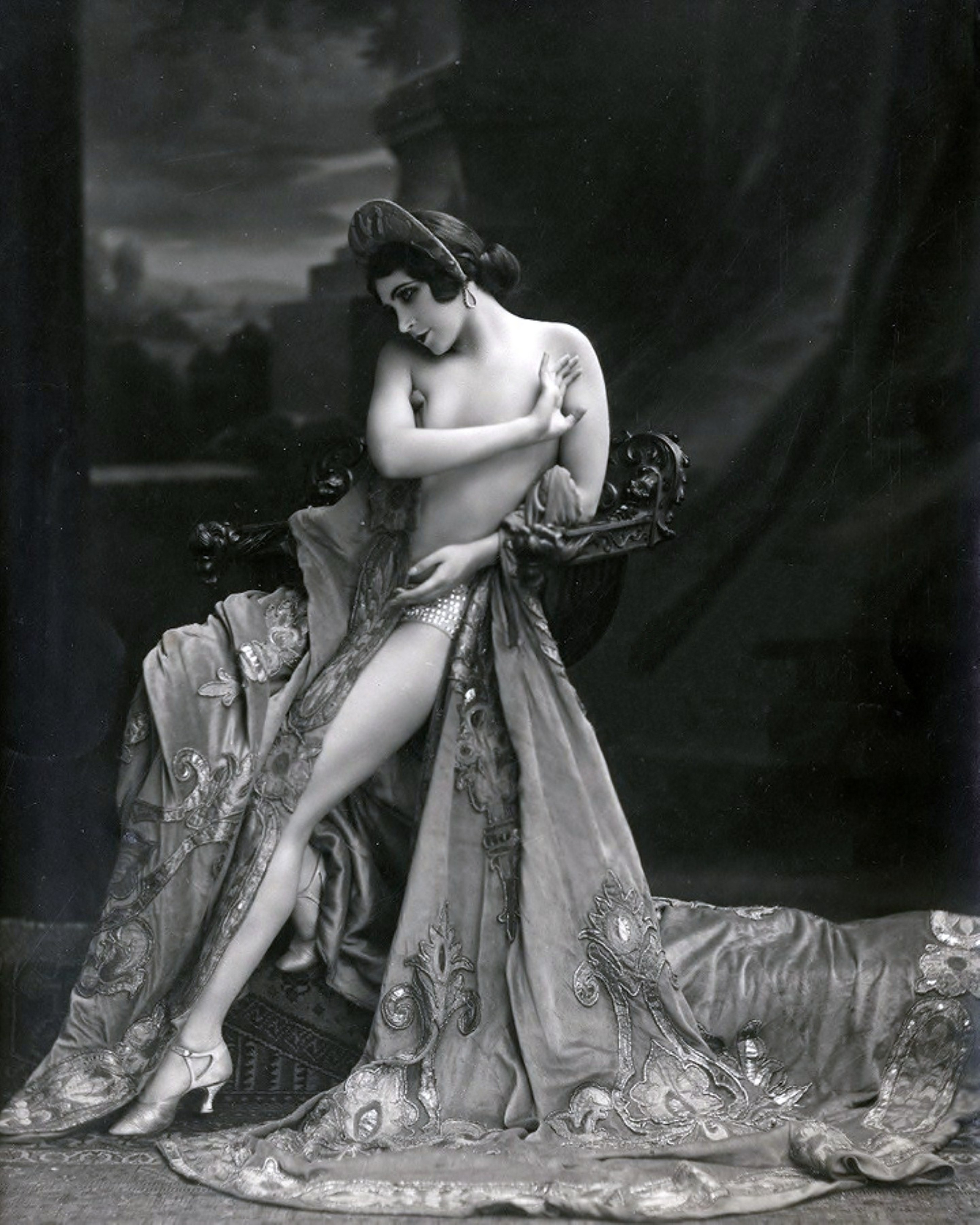 Stars and beauties around 1925, by Charles Auguste Varsavaux (1866-1935) dit Waléry.